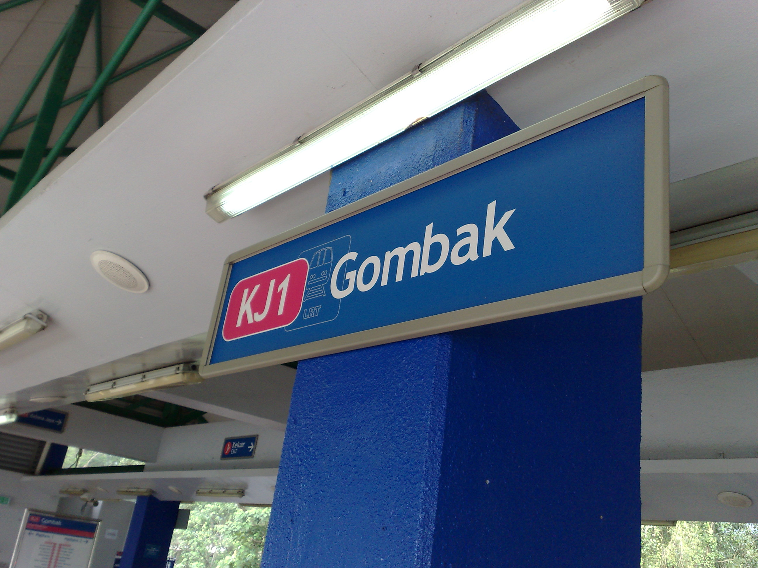 Gombak LRT